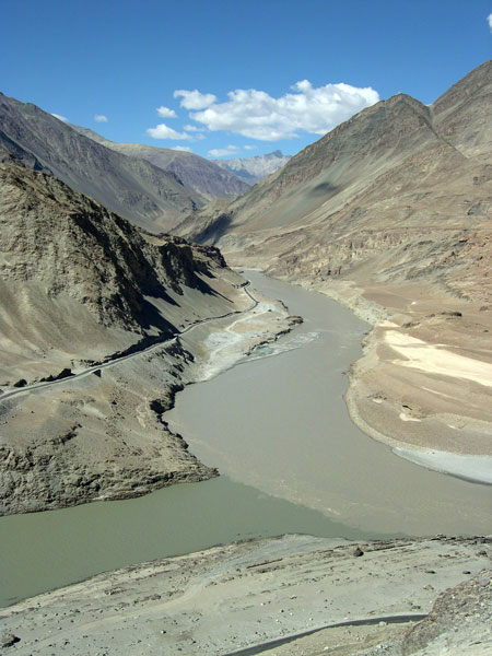 Confluence Indus Zanskar